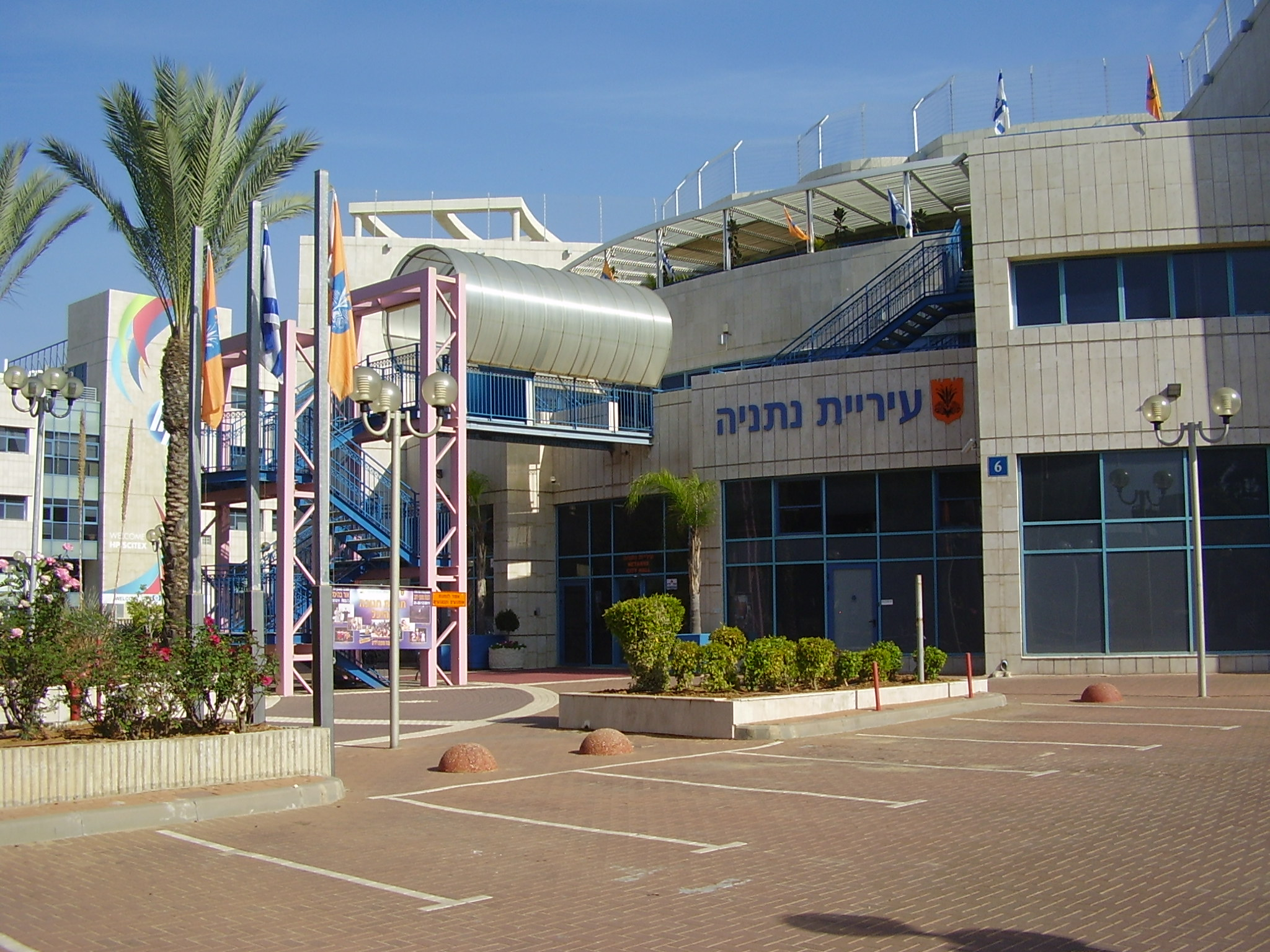 Netanya Municipality